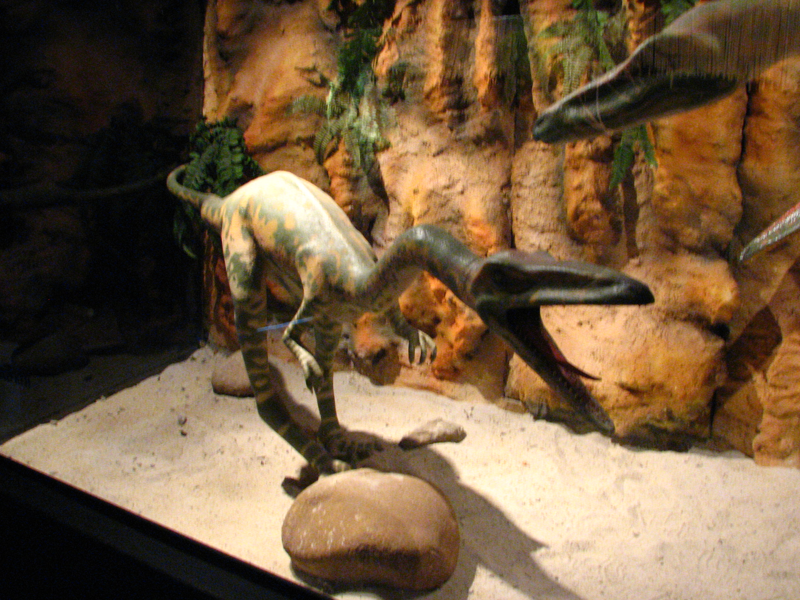 Model of Coelophysis in ZOO Dvůr Králové, Czech Republic